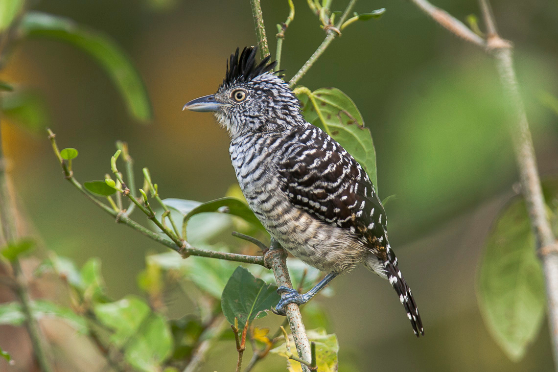 Barred Antshrike - Panama_H8O3027